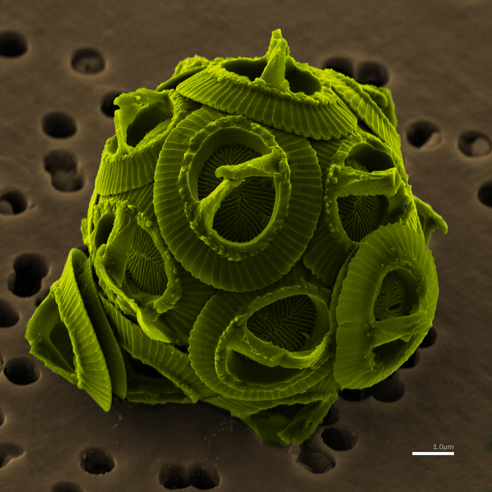 Gephyrocapsa oceanica KAMPTER from Mie Prefecture, Japan. The image was taken by means of a scanning electron microscope (JEOL JSM-6330F), hence the colors are artificial. Scale bar = 1.0 μm.